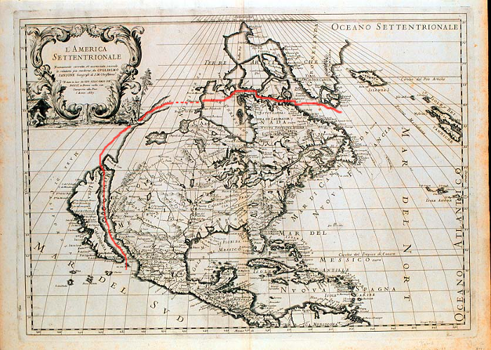 Map of North America by Guillaume Sanson, Rome, 1687. Estimated position of Strait of Anián is marked.